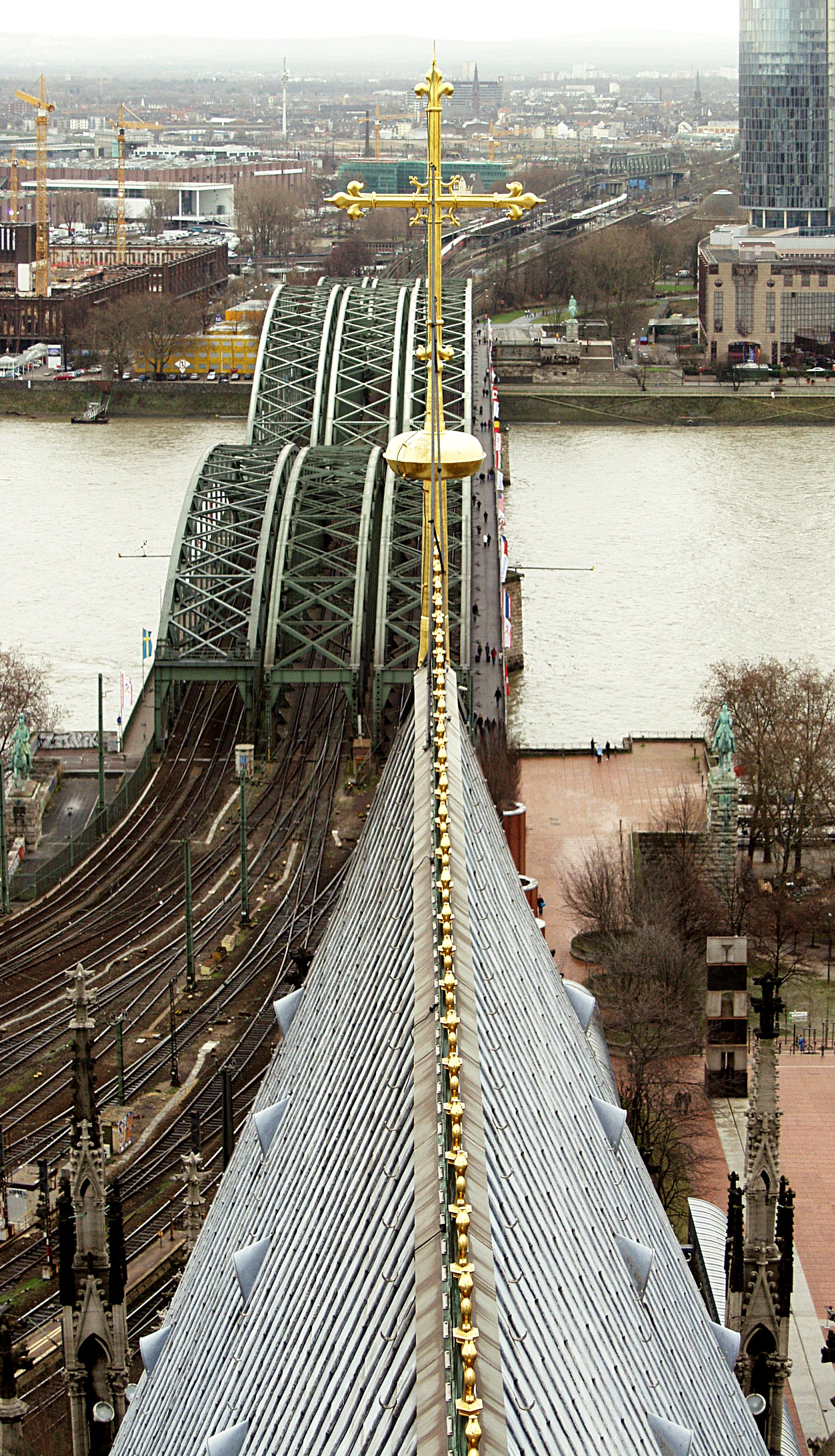 Hohenzollern bridge from crossing tower of Cologne Cathedral